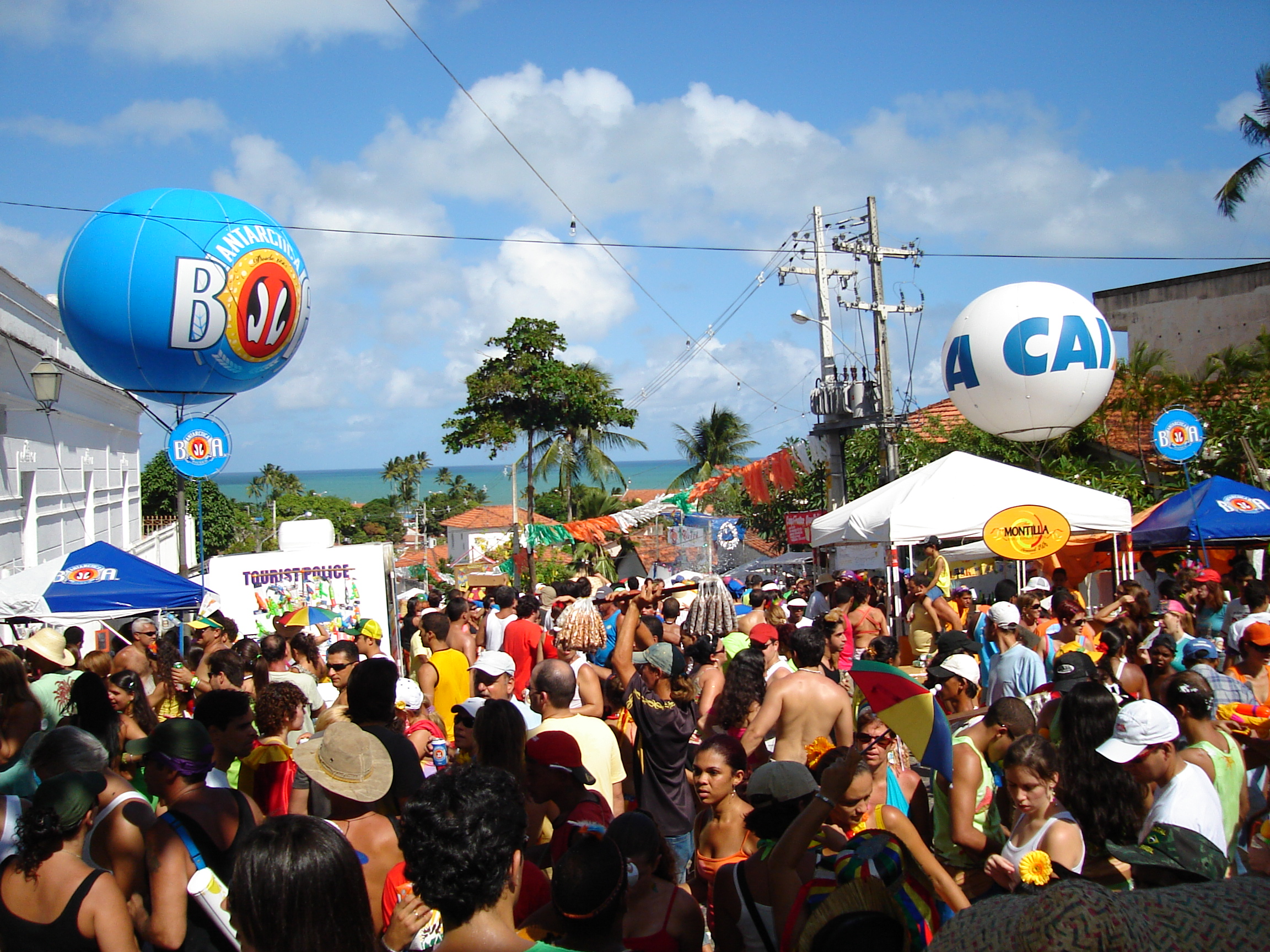 Photo taken by me of Carnaval in Olinda, Brazil, february 2006.